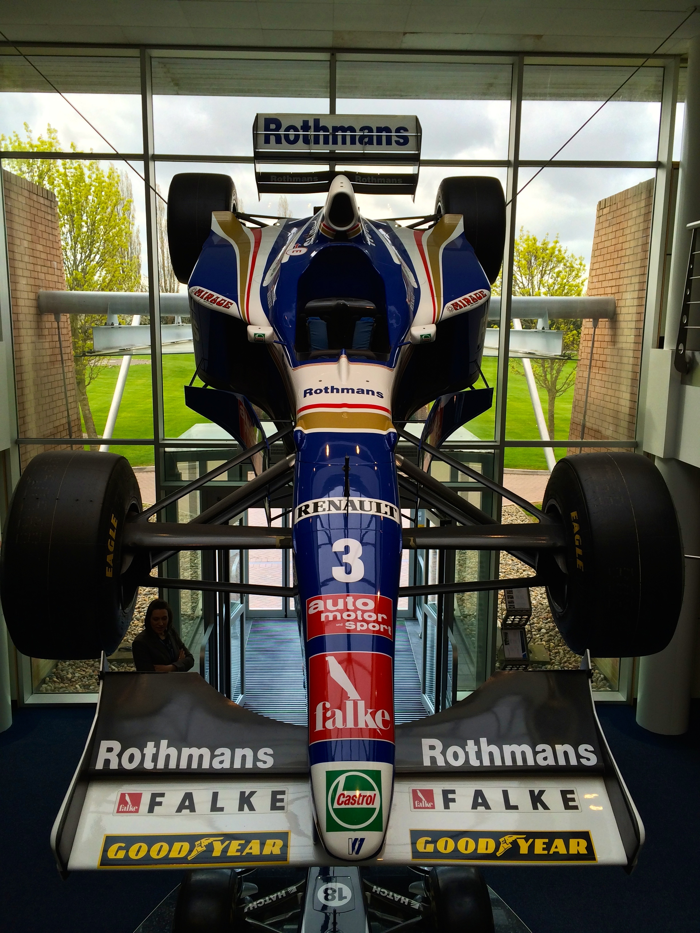 The Williams FW19 of Jacques Villeneuve, used in the 1997 Formula One season.